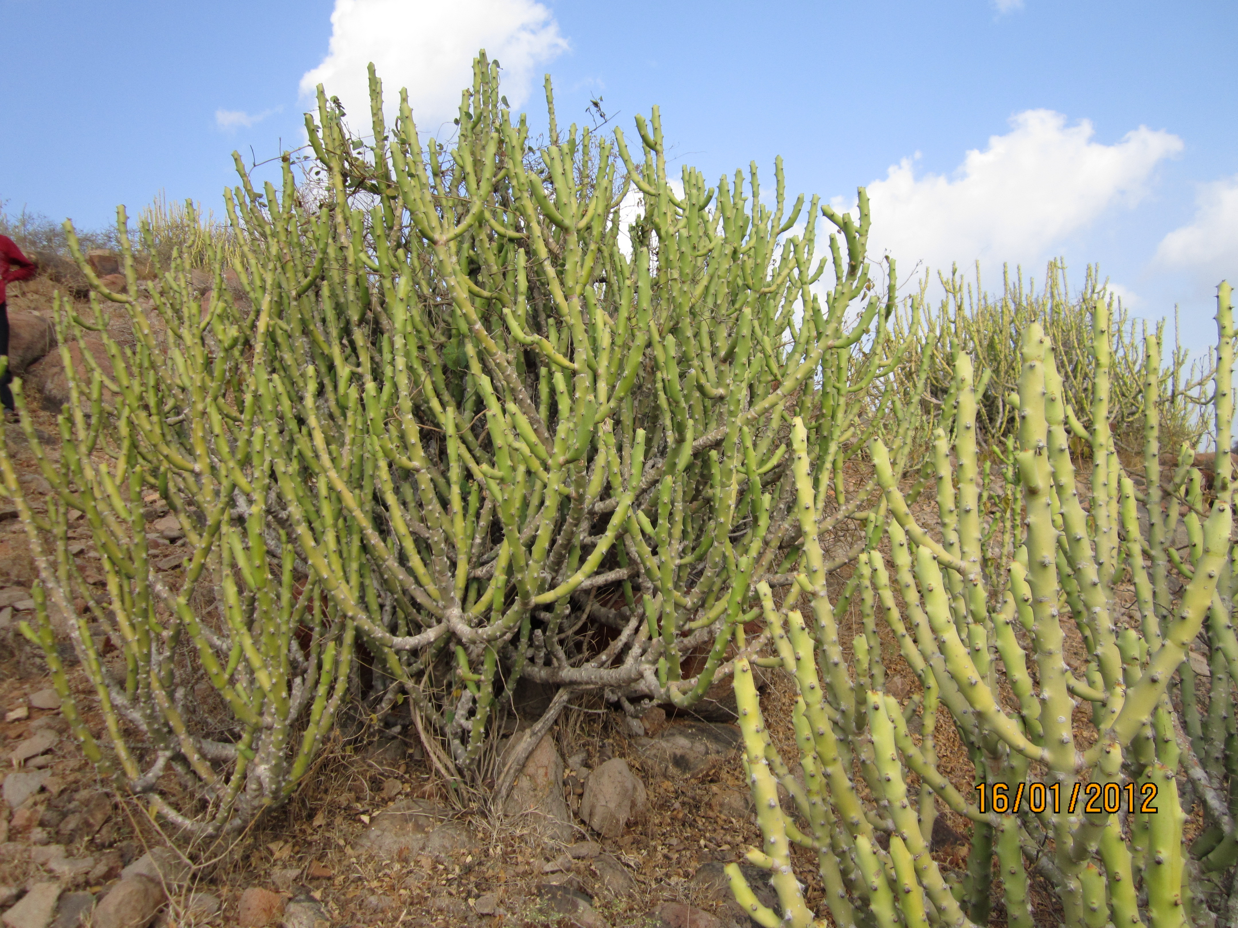 wild flora with forks " BARDA " Hill . Raju Odedra Mo . 07698787895